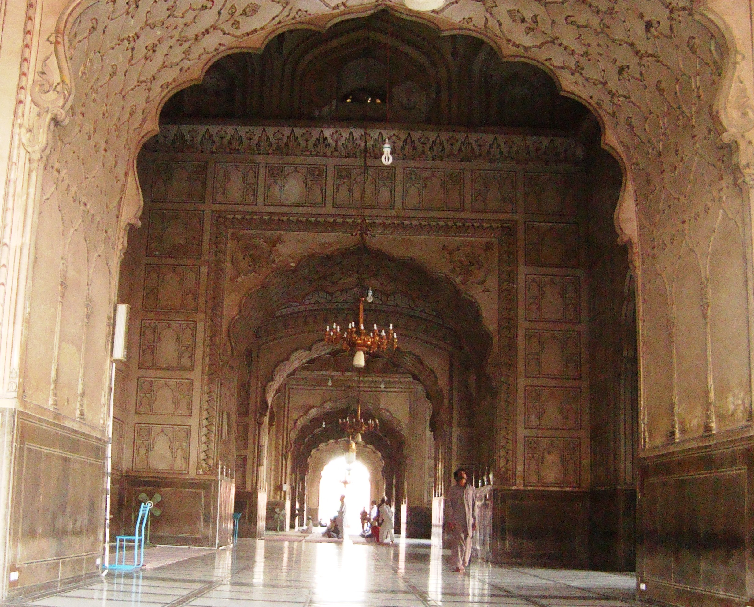 Badshahi Mosque (King’s Mosque) This is a photo of a monument in Pakistan identified as the PB-44